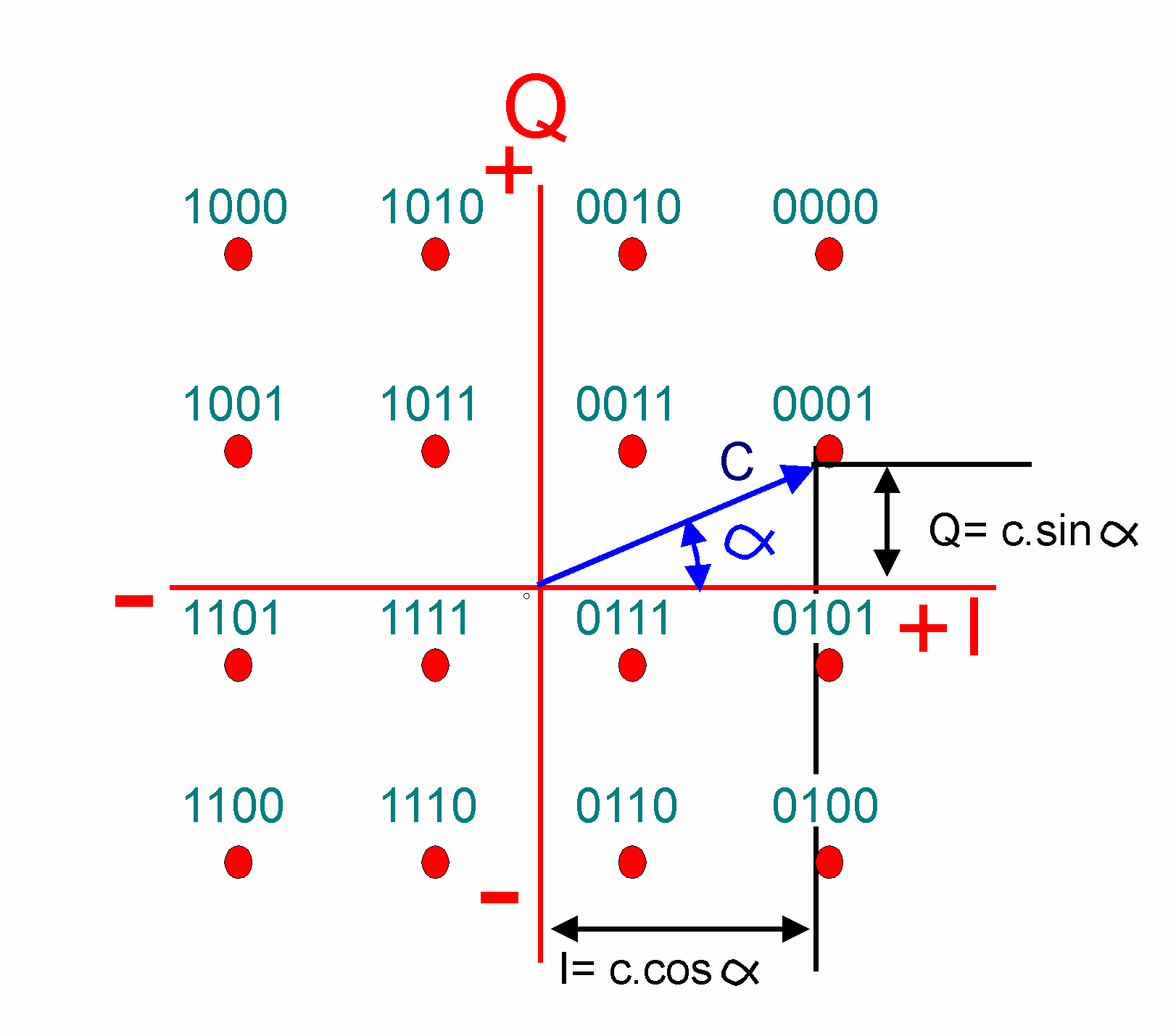 Map of QAM16 coding and relation to I and Q component and amplitude of the transmitted signal